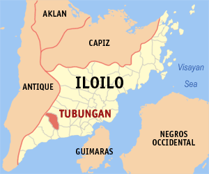 Map of Iloilo showing the location of Tubungan